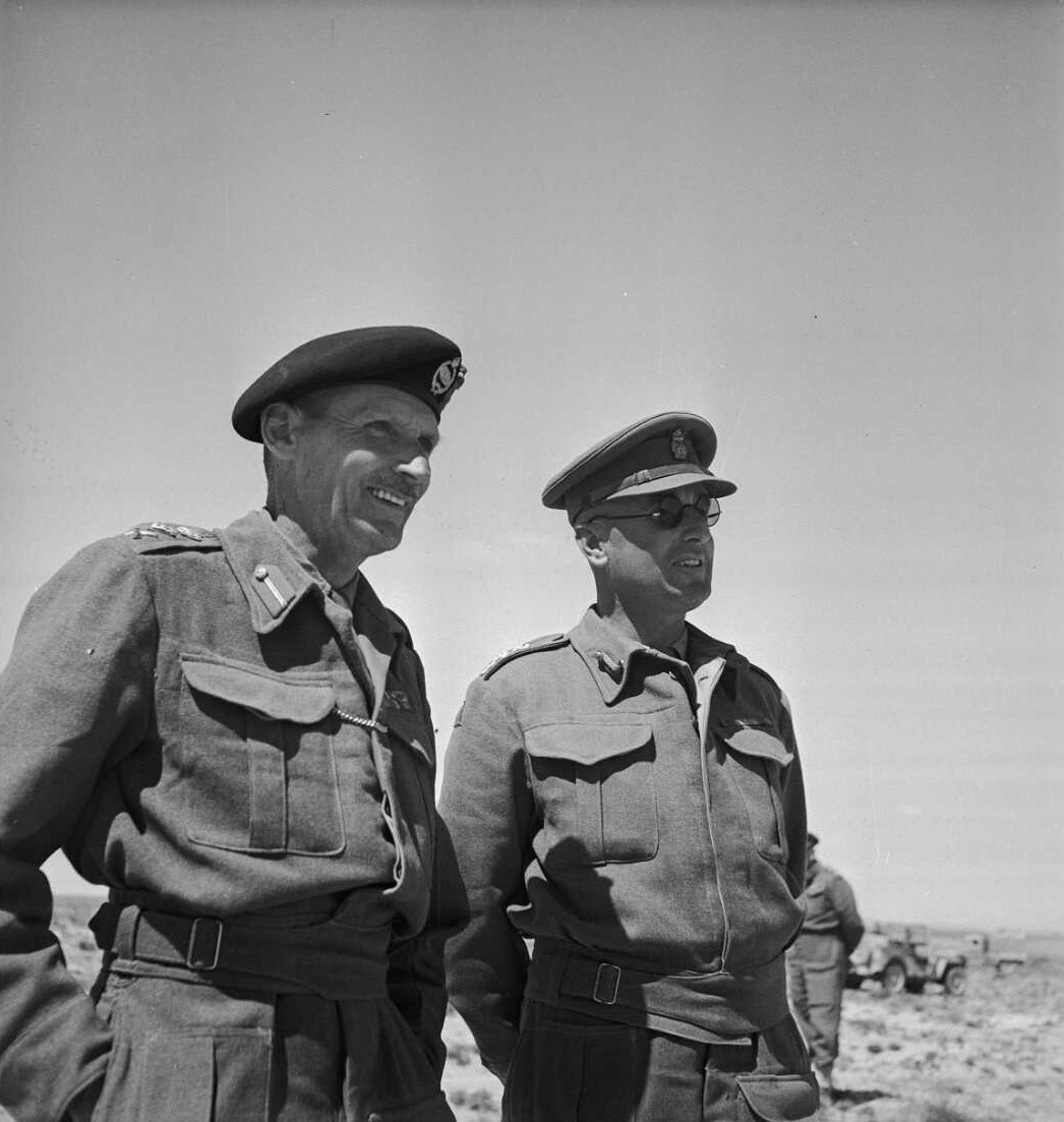 General Bernard Law Montgomery and Brigadier William George Gentry in Tunisia during World War II. (Photograph taken probably in April 1943 by H Paton. Paton, Harold Gear, 1919-2010.) General Bernard Montgomery and Brigadier William Gentry in Tunisia, World War II - Photograph taken by H Paton. New Zealand. Department of Internal Affairs. War History Branch: Photographs relating to World War 1914-1918, World War 1939-1945, occupation of Japan, Korean War, and Malayan Emergency. Ref: DA-03011-F. Alexander Turnbull Library, Wellington, New Zealand. Harold Paton was an official photographer of the NZ Military Forces and thus copyright in this work rests or rested with the Crown. The Crown has released this work under the CC-BY 3.0 unported license. Refer to source website for details: This work's copyright expired 50 years after creation in New Zealand and probably also in countries following the rule of the shorter term.